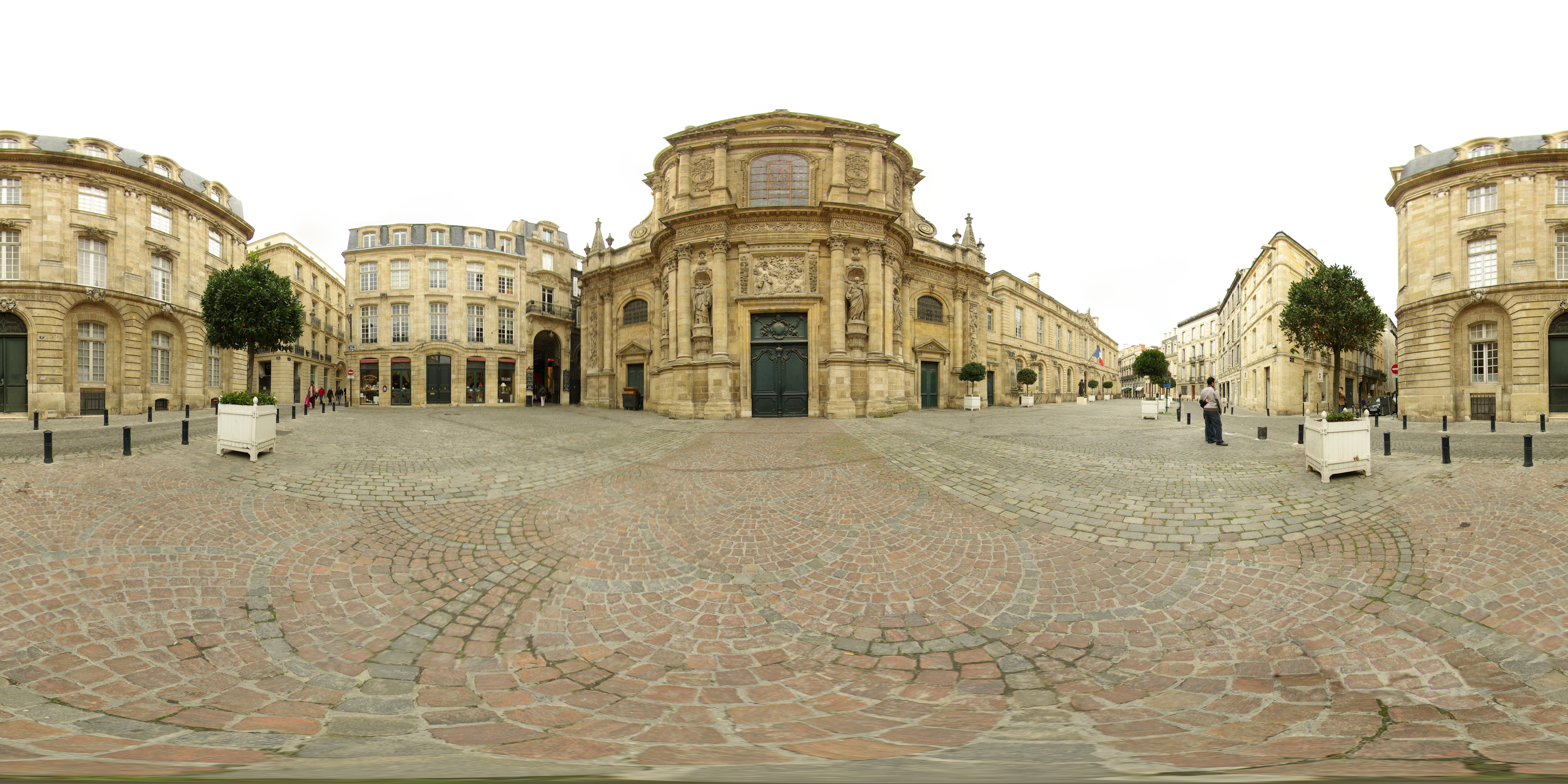 Église Notre Dame de Bordeaux Equirectangular panorama built from 8 pictures, shot handheld. See also its stereographic projection .